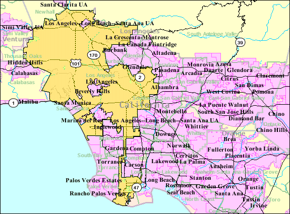 Map of Los Angeles, California